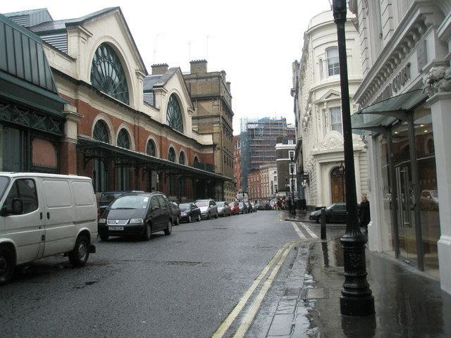 Tavistock Street I overheard a tourist saying "This is where the bomb wnt off." but that was Tavistock Place about half amile away in Bloomsbury.